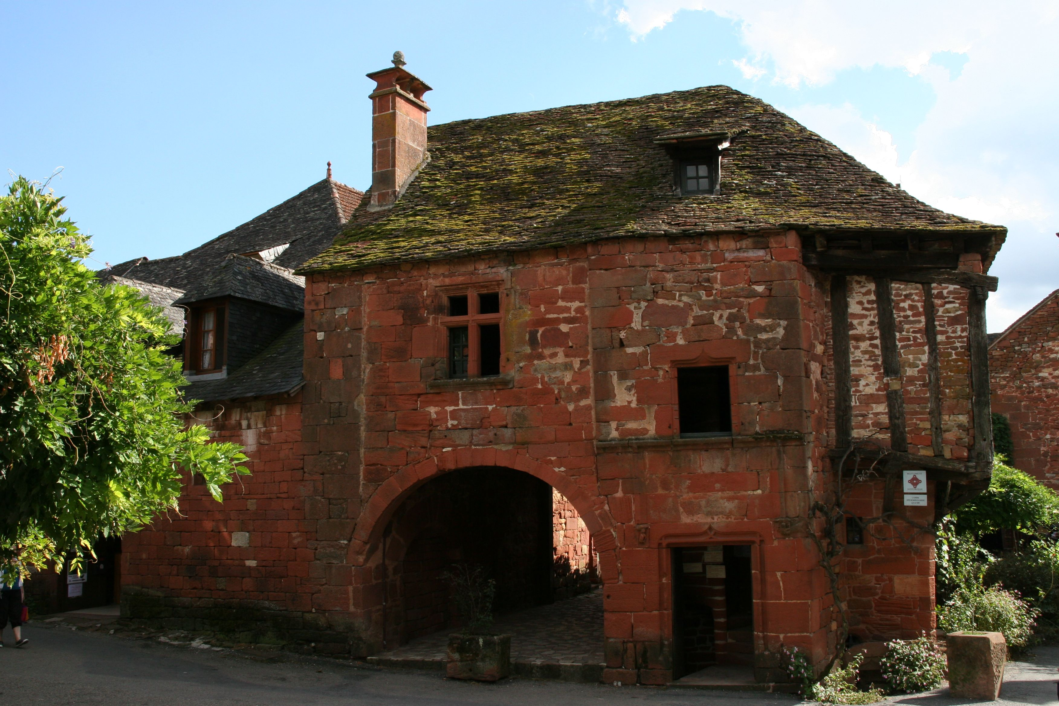 Collonges la Rouge: House